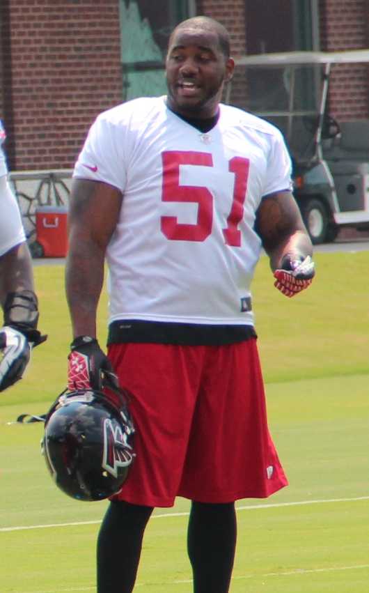 Robert James at Falcons training camp, 2013